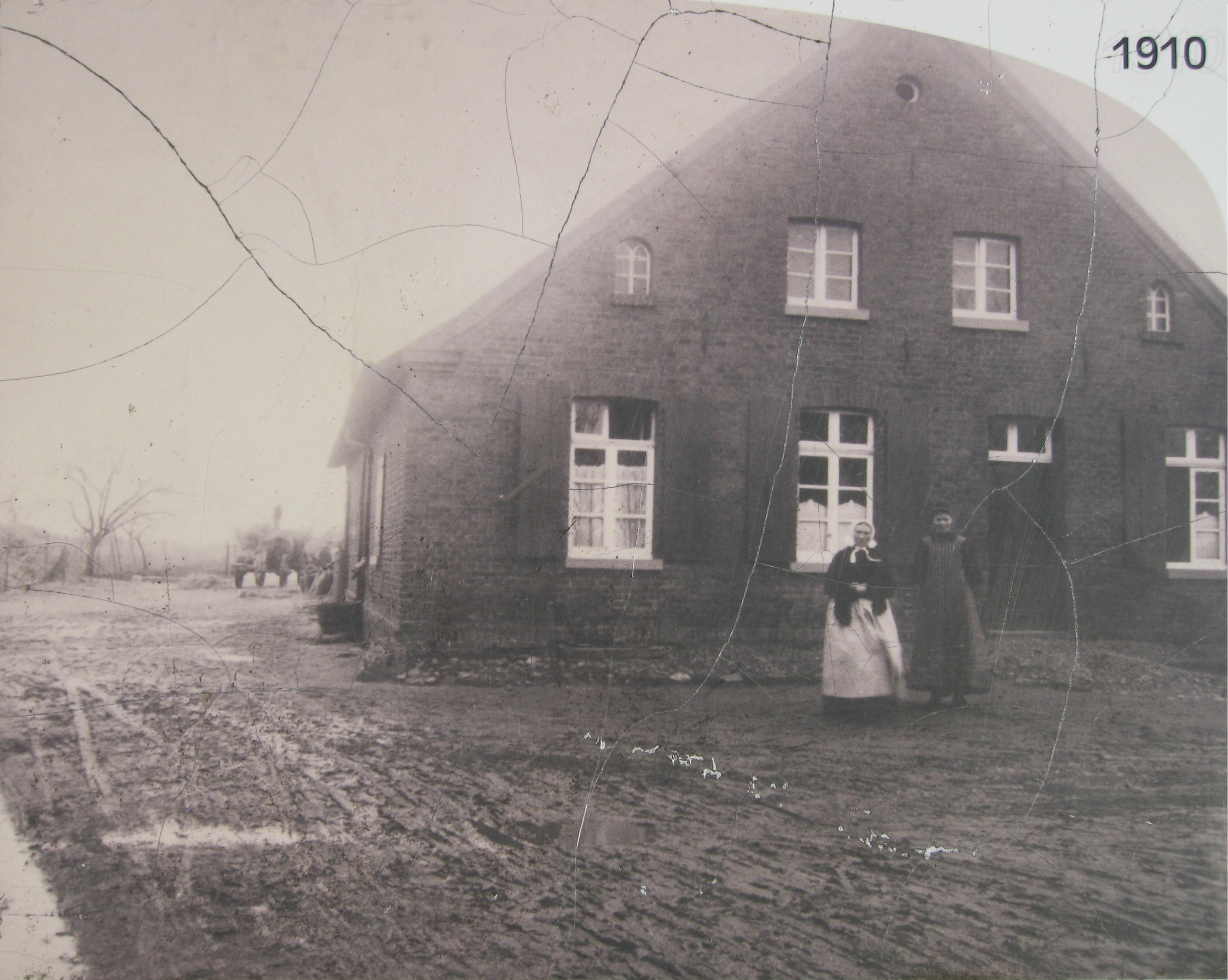 A rural house in the poor village of Erle (Münsterland, Germany), in 1910, with its inhabitants. Today, Raesfeld-Erle is a rich little town.